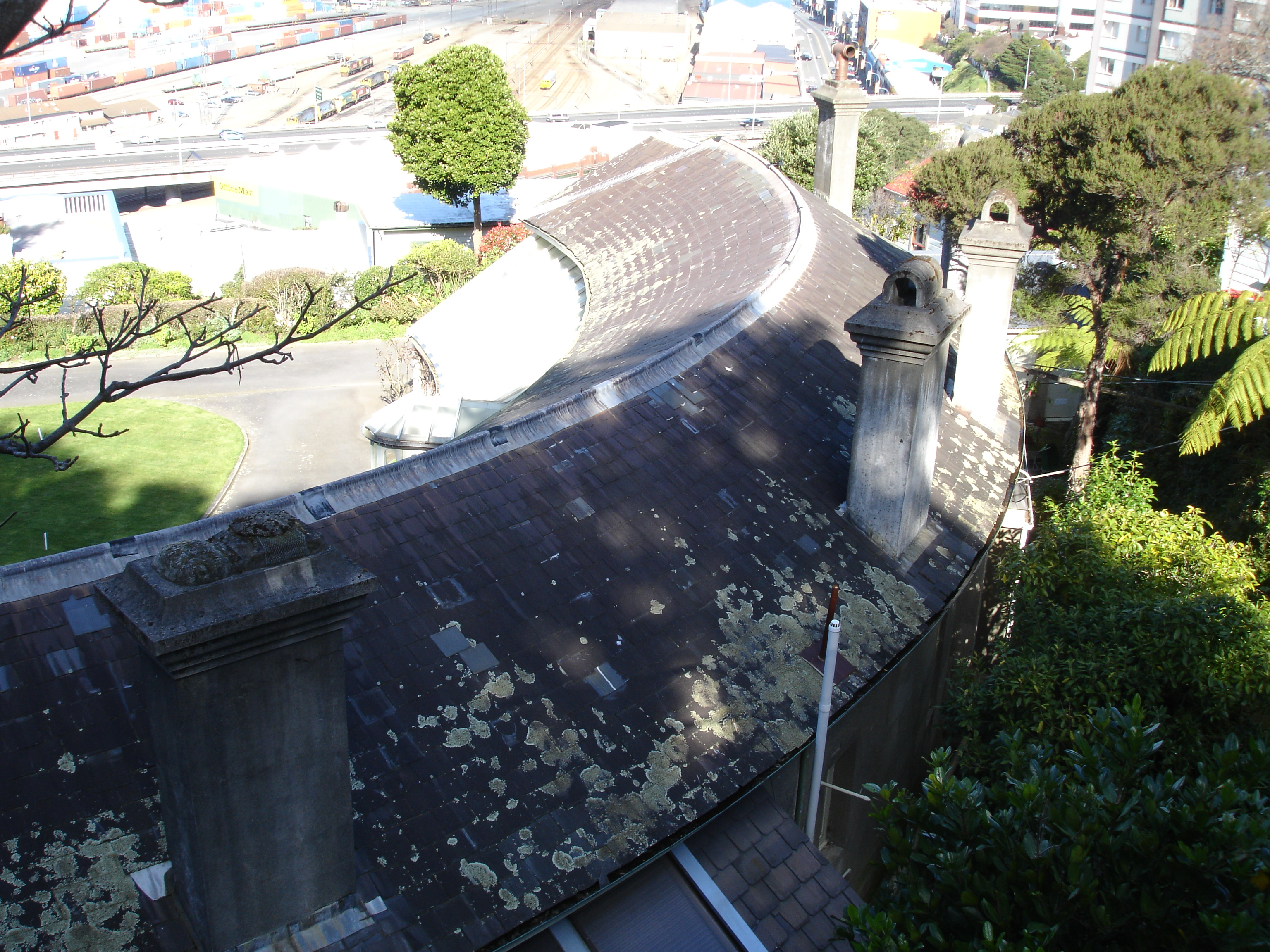 The Banana House now gazes out over the Wellington Urban Motorway and the railway yards on reclaimed land to Wellington's harbour